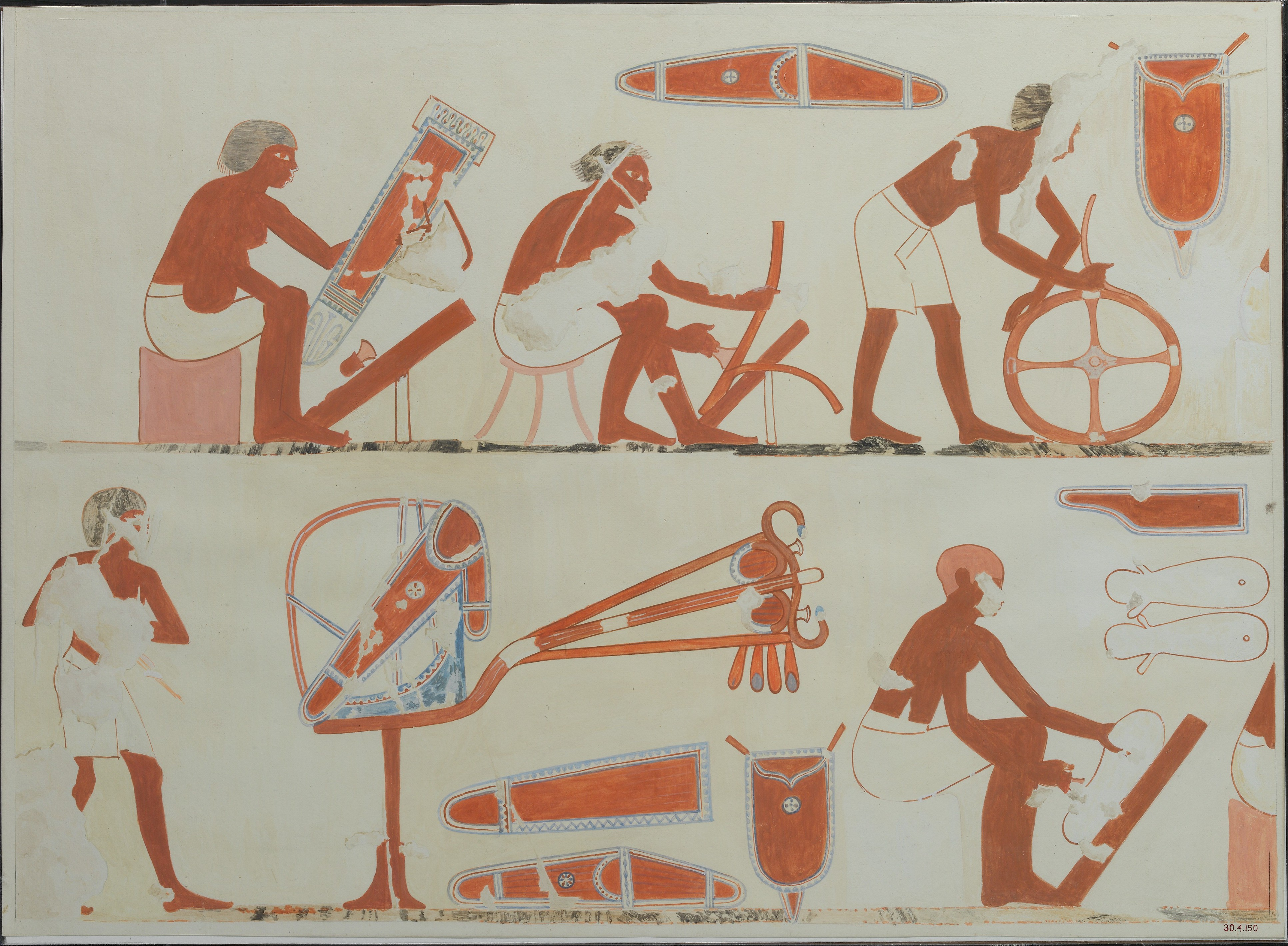 Facsimile, Hapu (TT 66), craftsmen, wood, leather